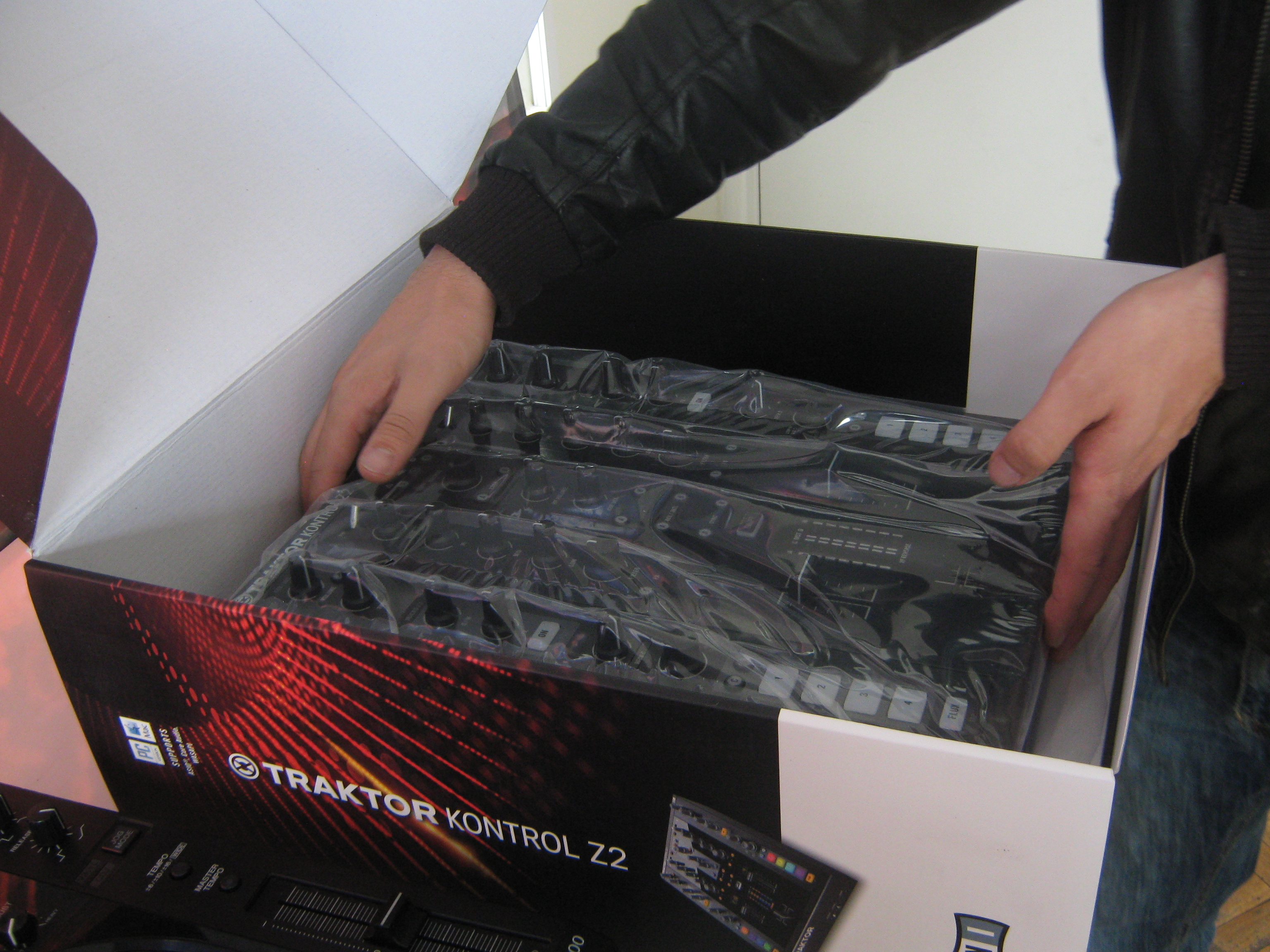 Traktor Kontrol Z2 unboxing 3 by DJ Leonardo Roa (photo by Audiotecna)